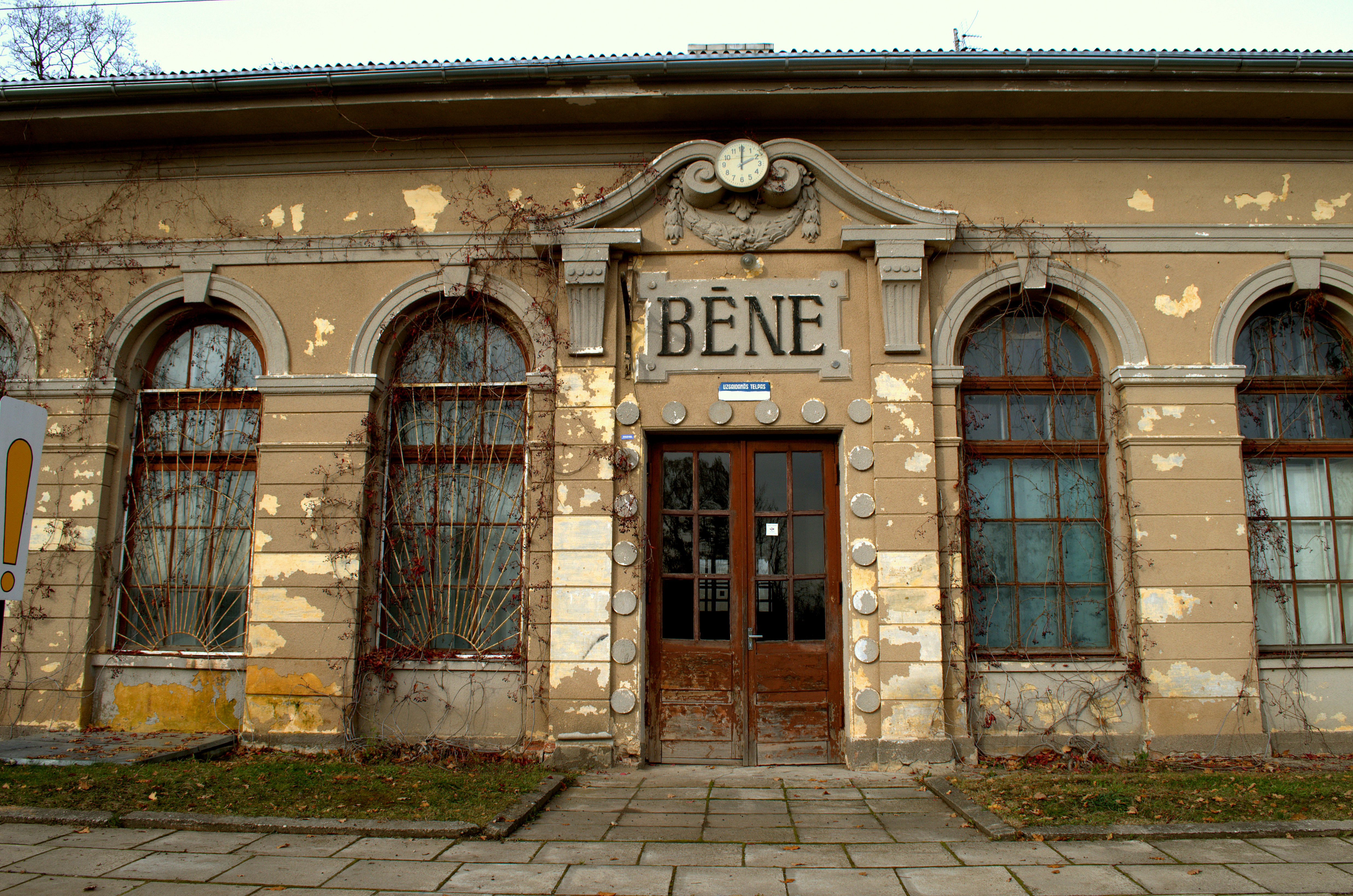 Bēnes stacija / railway station